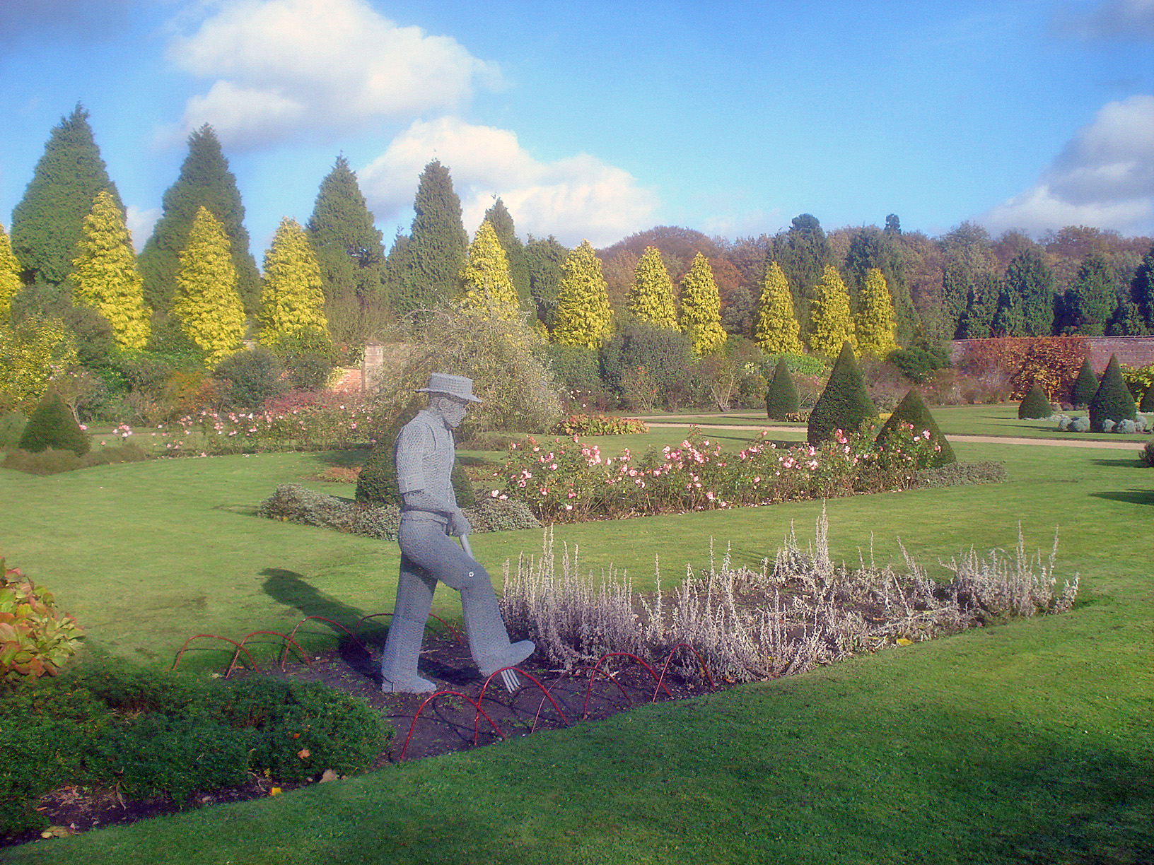 The Rose Garden - 2